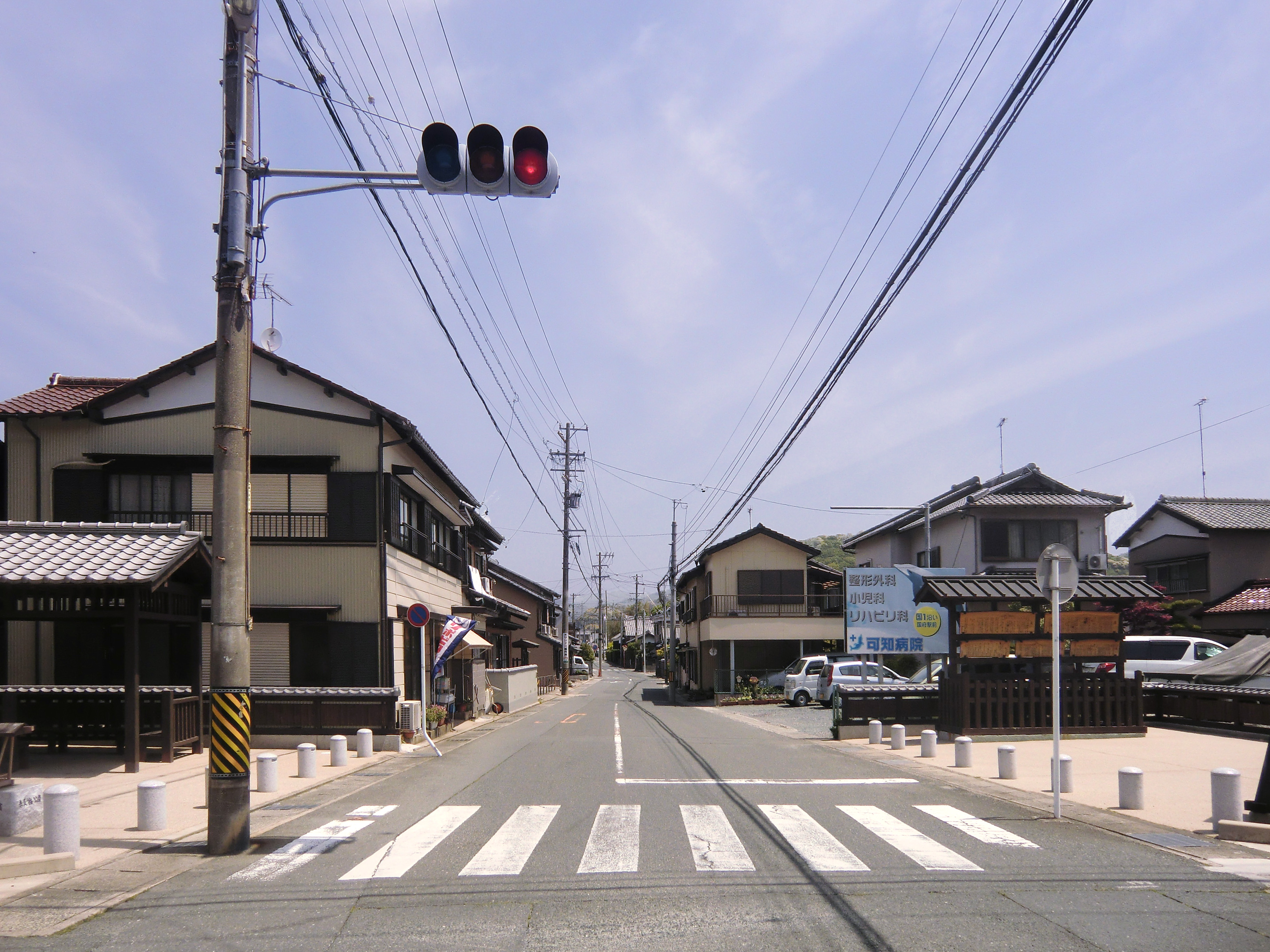 Terminal point of the Aichi Prefectural Road No.332 Ojiro-Akasaka Line (愛知県道332号大代赤坂線), located at Toyokawa, Aichi, Japan